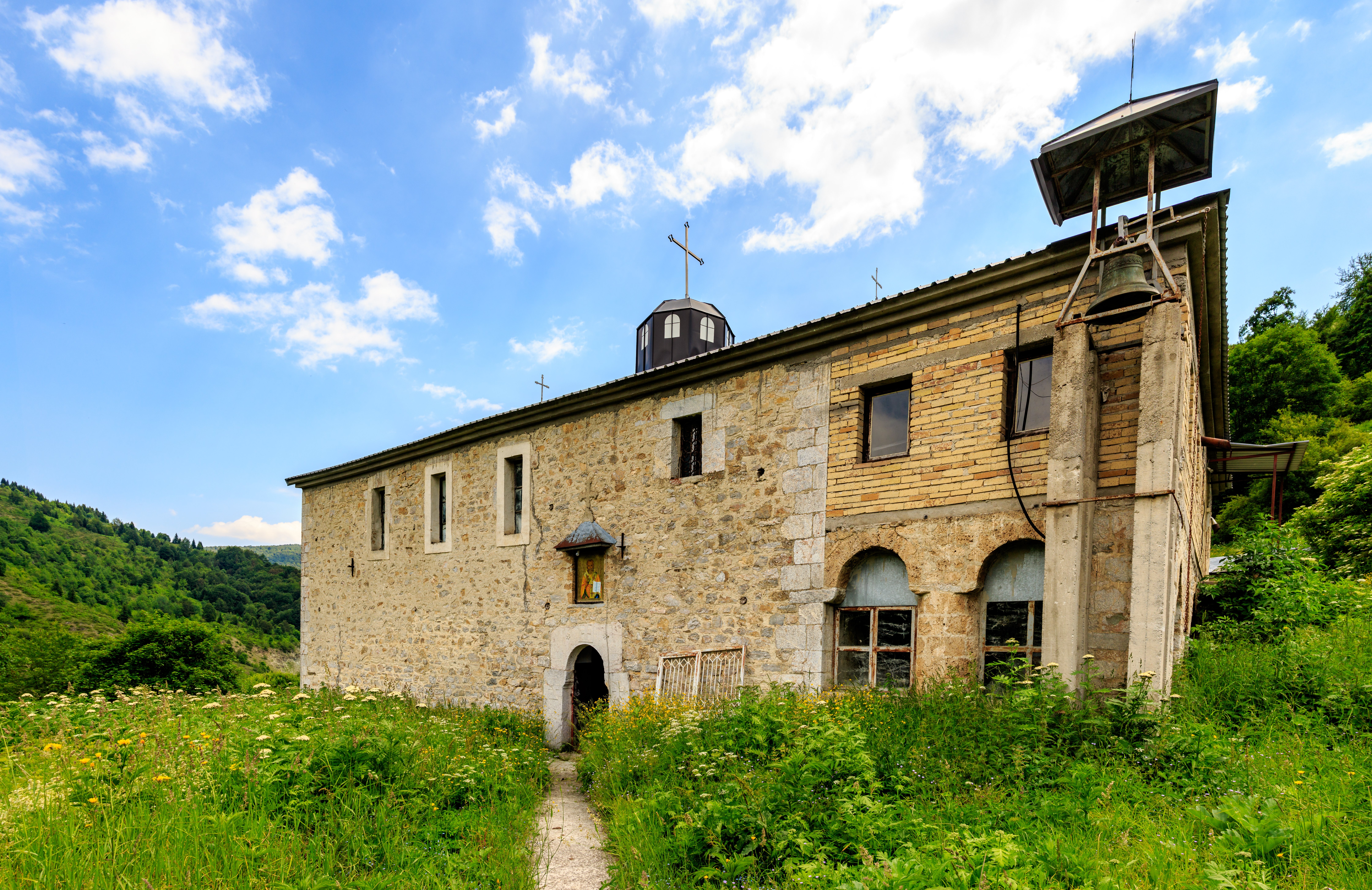 View of the St Nicholas Church in the village Beličica